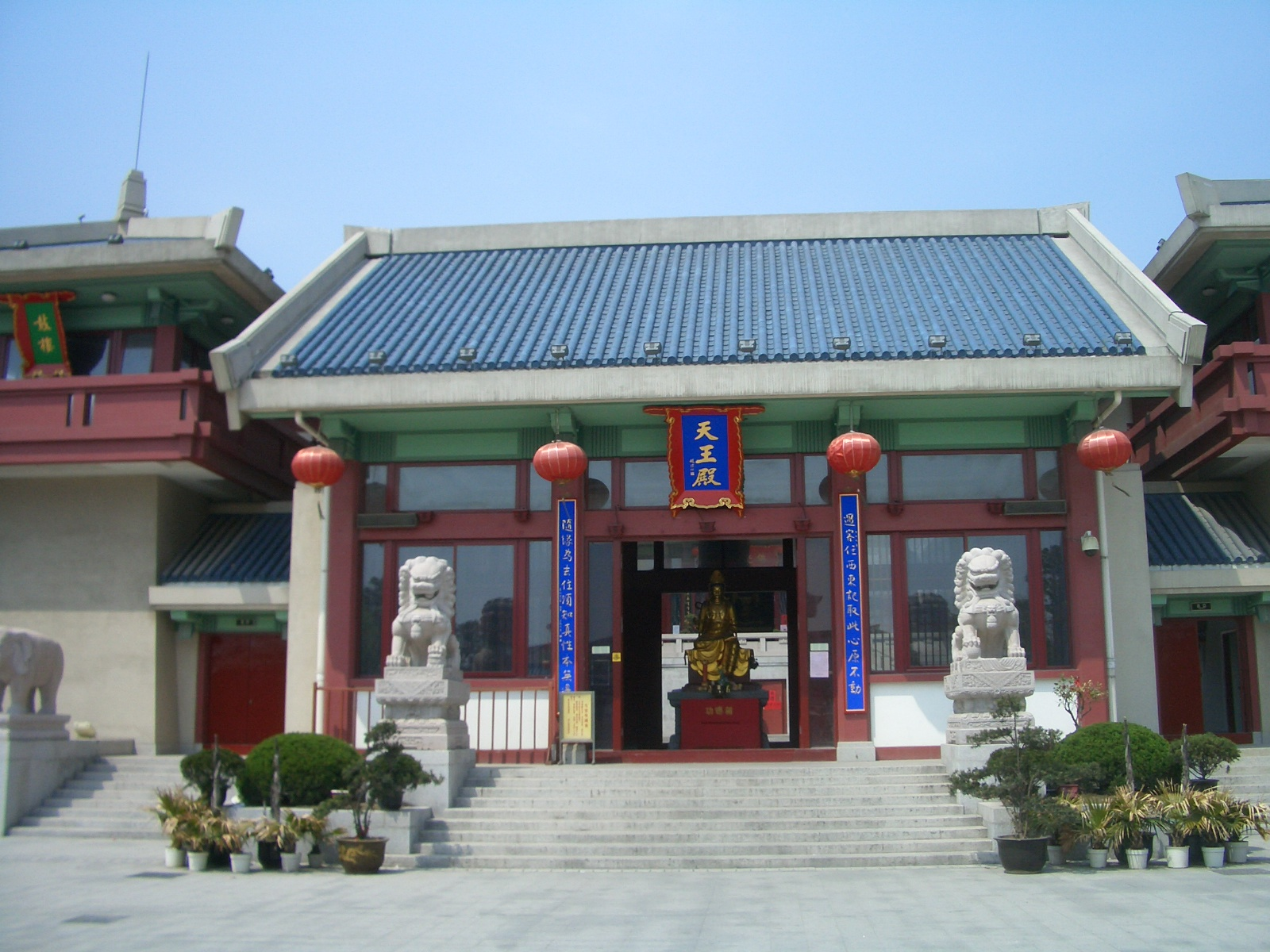 Tian Wang Dian (Hall of the Heavenly King) in Qibao, China